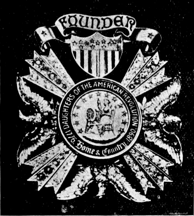 Photograph of a jeweled badge awarded to Eugenia Scholay Washington (June 27, 1838 – November 30, 1900), an American historian, civil servant, and a founder of the lineage societies Daughters of the American Revolution and Daughters of the Founders and Patriots of America. Washington was a great-grandniece of George Washington, first President of the United States.